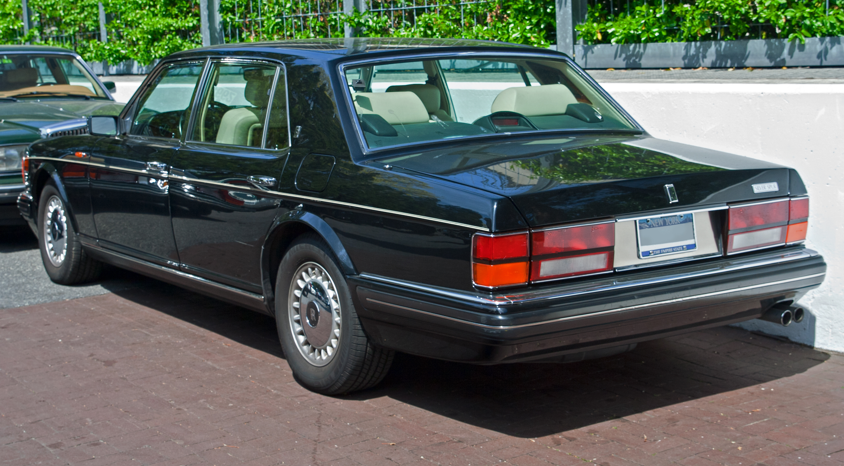 Rear view of 1996 Rolls-Royce Silver Spur IV in Greenwich, CT.